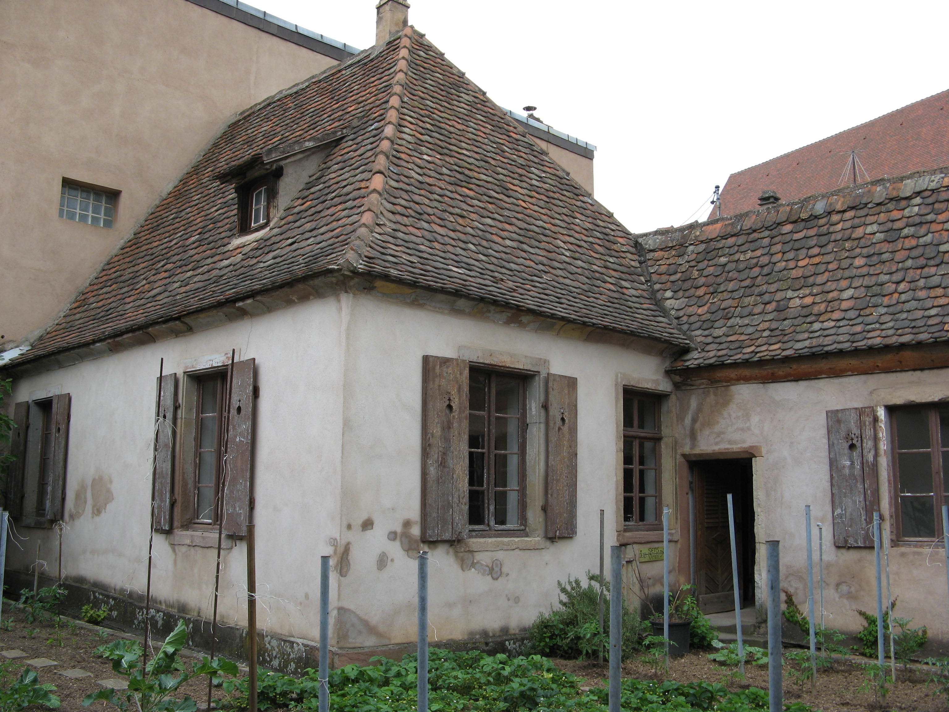 Carthusian monastry cell in Molsheim